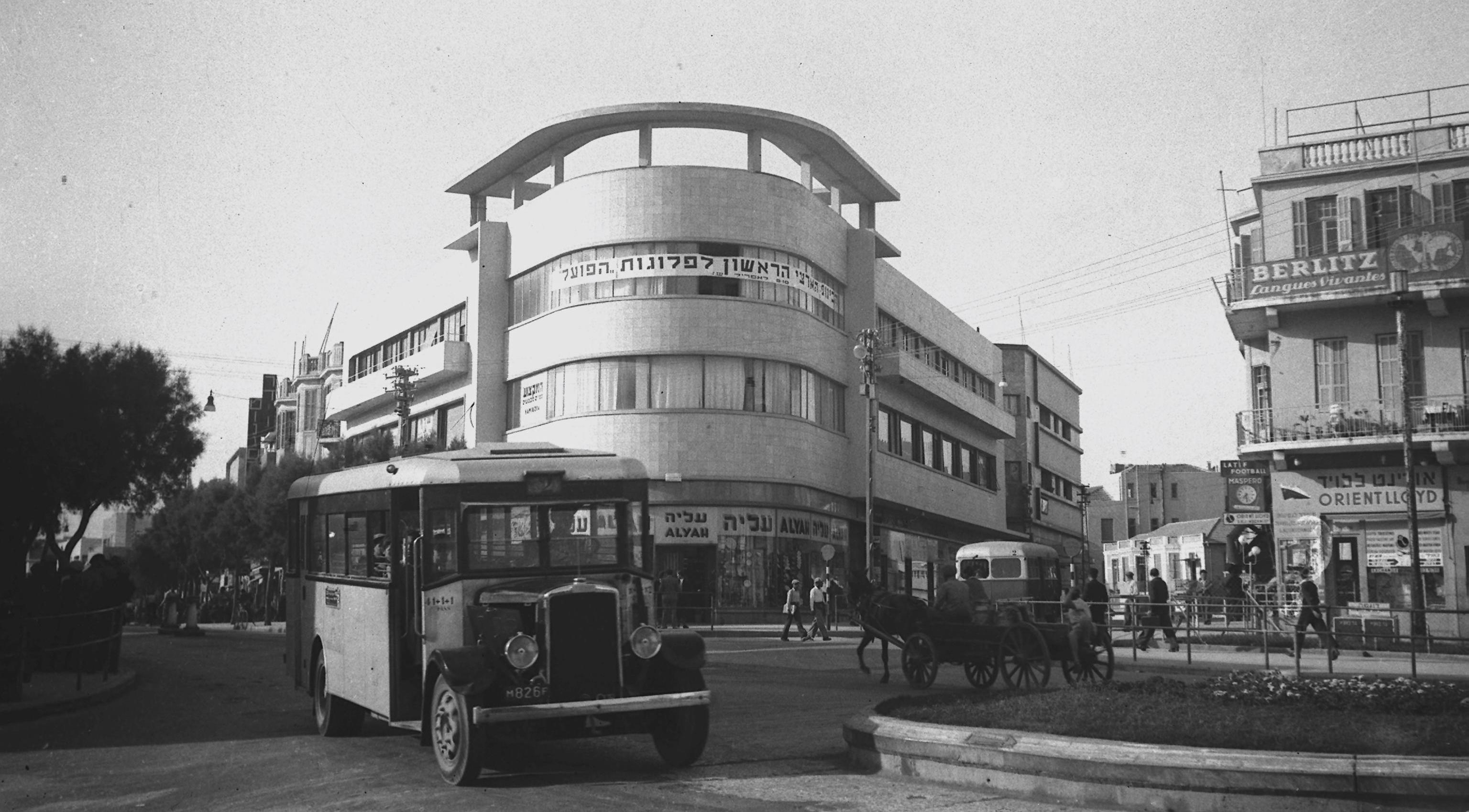 TEL AVIV'S ALLENBY STREET. רחוב אלנבי בעיר תל אביב.